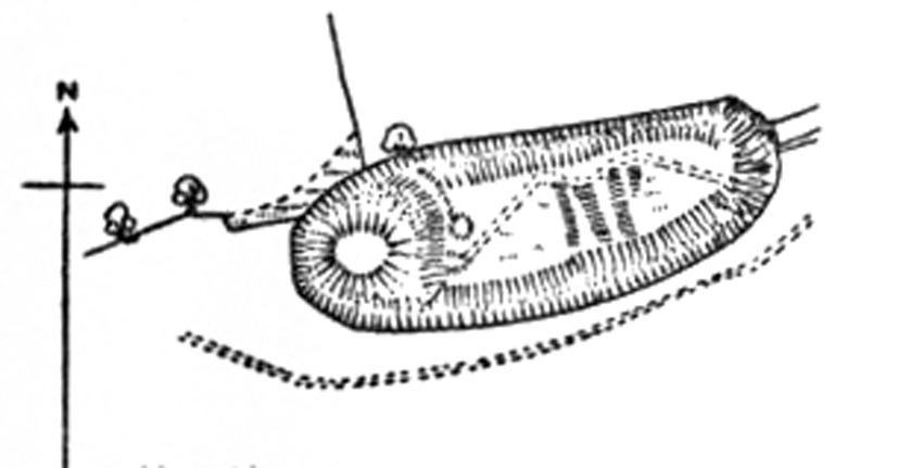 Penstowe Castle plan (1906)